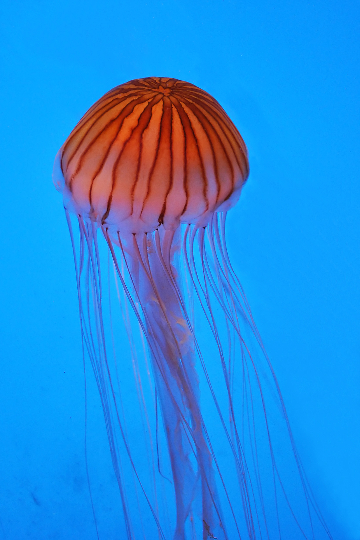 Northern Sea Nettle or Brown Jellyfish (Chrysaora melanaster) at the National Aquarium in Baltimore, USA.